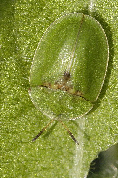 Picture taken in Commanster, Belgian High Ardennes . Species: Cassida rubiginosa